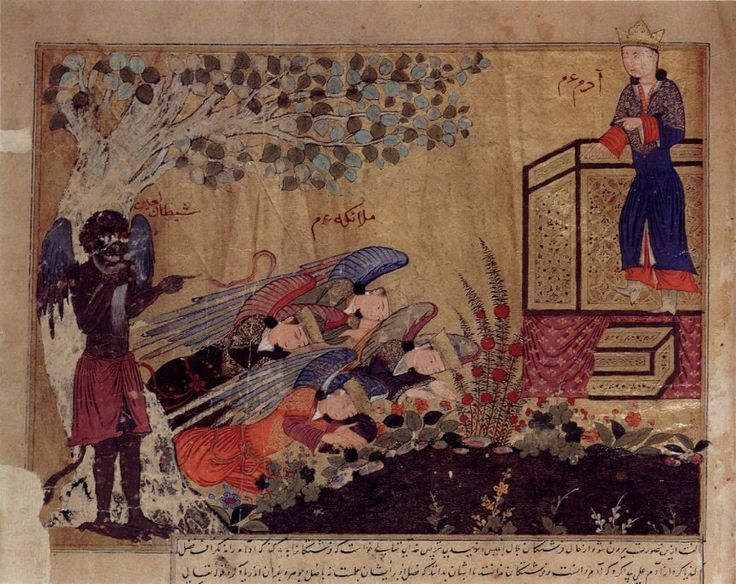 Painting from a Herat manuscript of the Persian rendition by Bal'ami of the Annals/Tarikh (universal chronicle) of al-Tabari, depicting angels honoring Adam, except Iblis, who refuses. Held at the Topkapi Palace Museum Library.